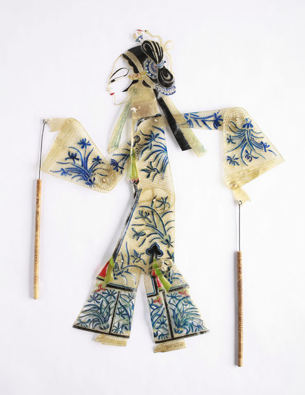 A Shadow puppet in the permanent collection of The Children’s Museum of Indianapolis.